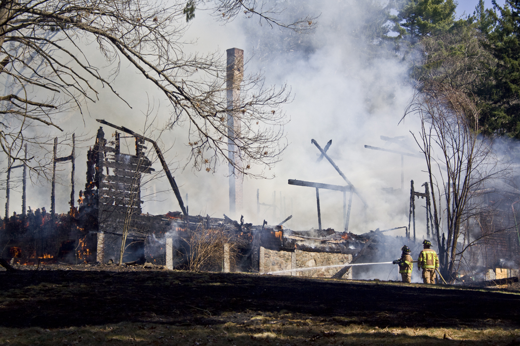 A photograph of the Maudslay state park barn as it was burning down on April 3rd 2010.